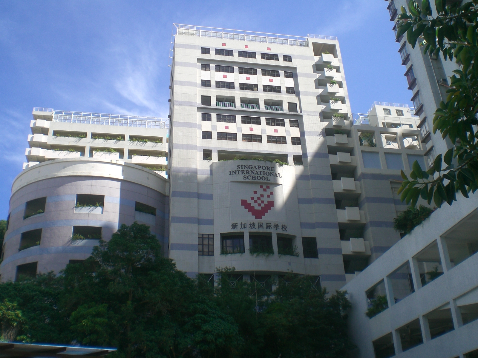 香港南區黃竹坑 Singapore International School